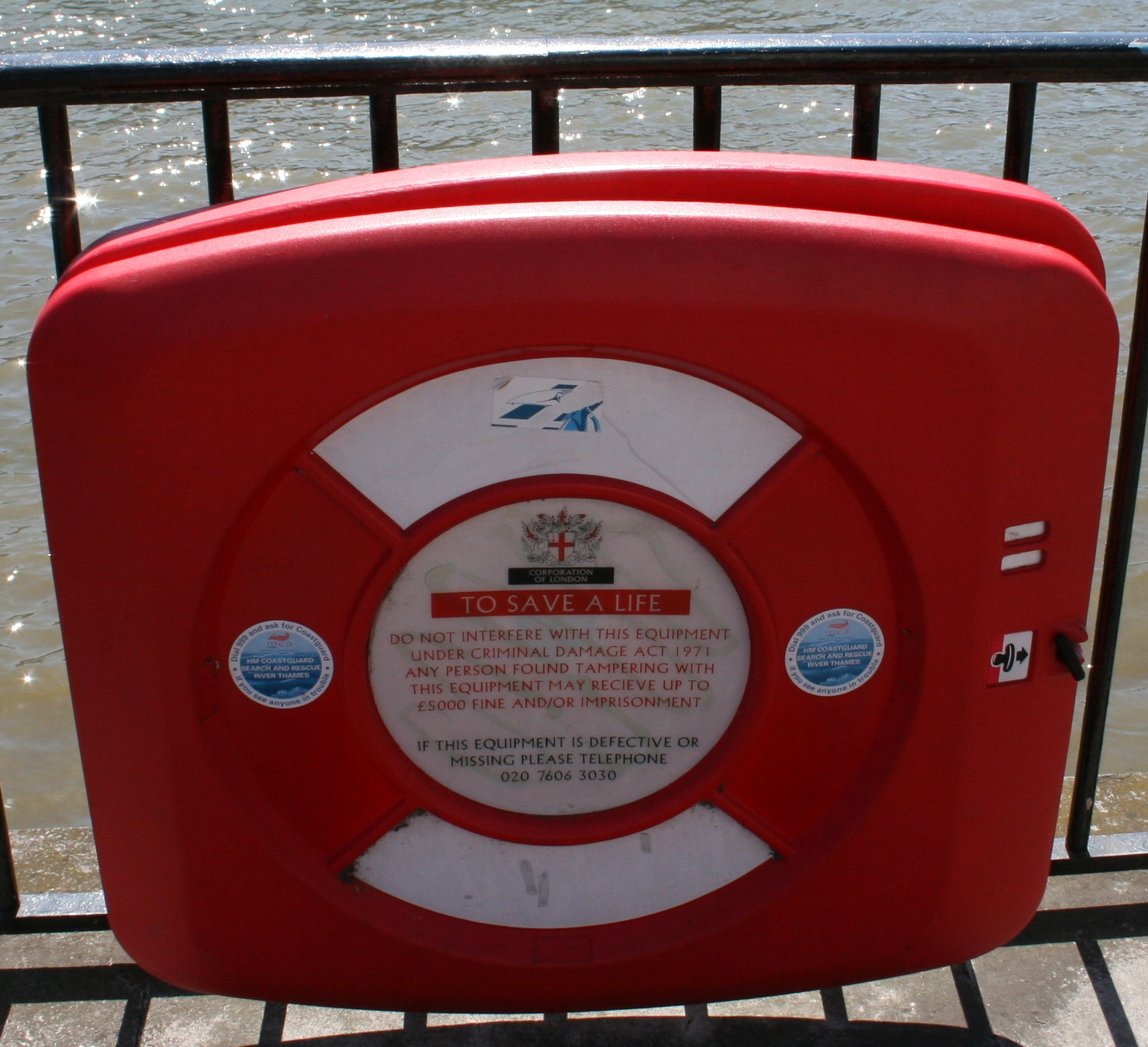 One of the many containered Lifebuoys located by the Thames, London.